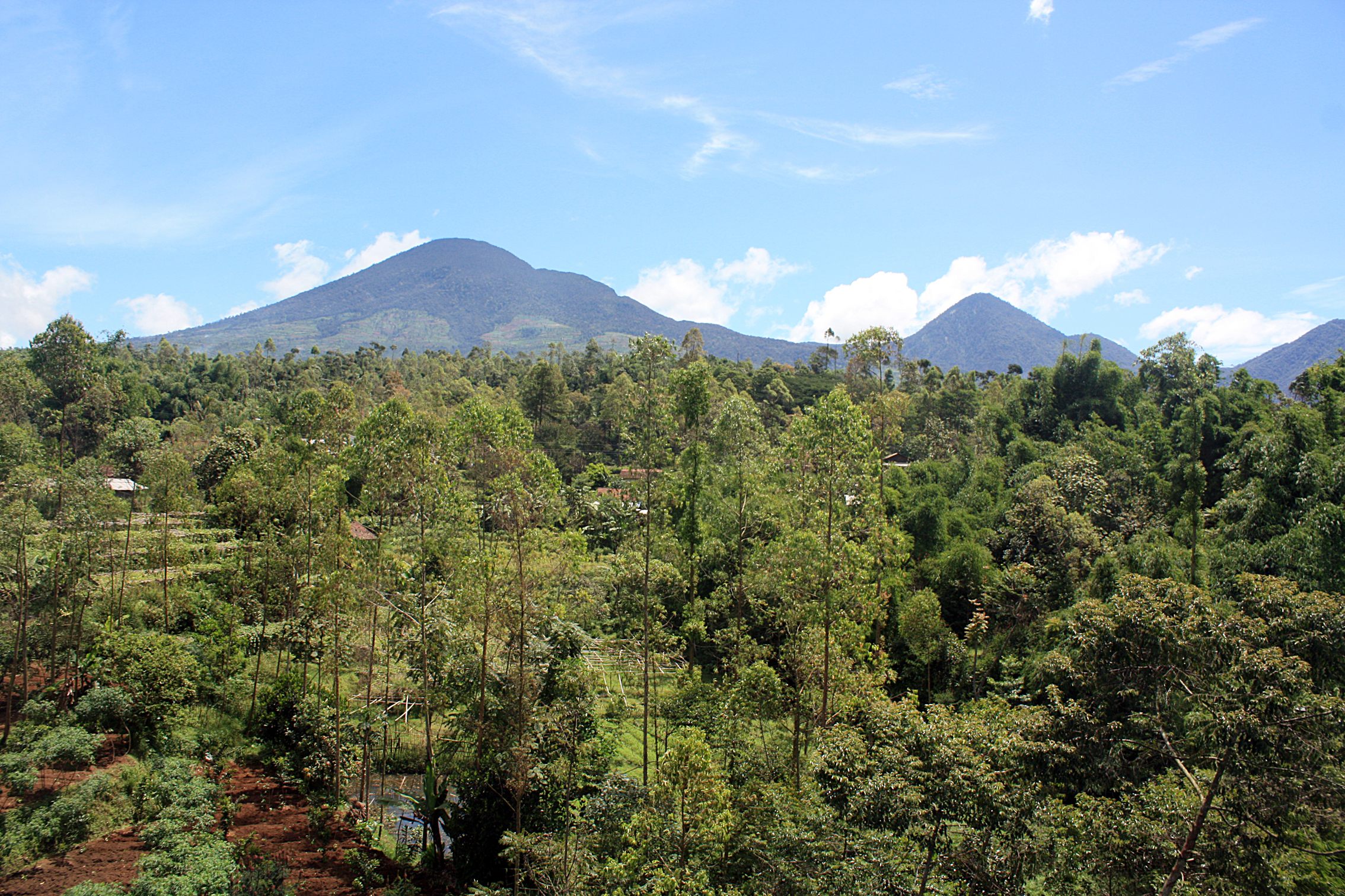 Mount Papandayan (left, 2622 m) and to the north is Mount Kendeng (right, 2608 m), viewed from Cisurupan on eastern foot of the volcano. Located southwest of Garut city in Garut Regency, West Java, Indonesia.